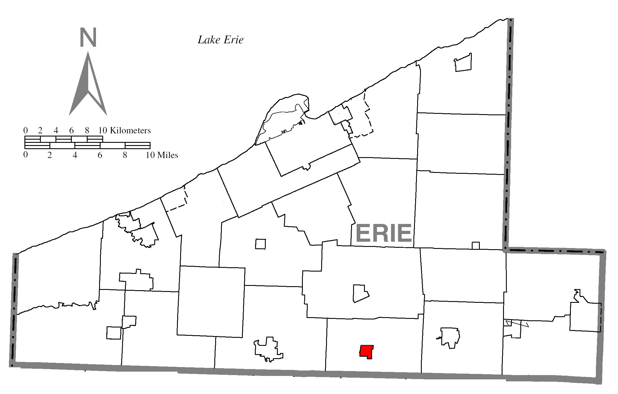 A map of Erie County showing Mill Village, Pennsylvania (alternate) highlighted on the map.